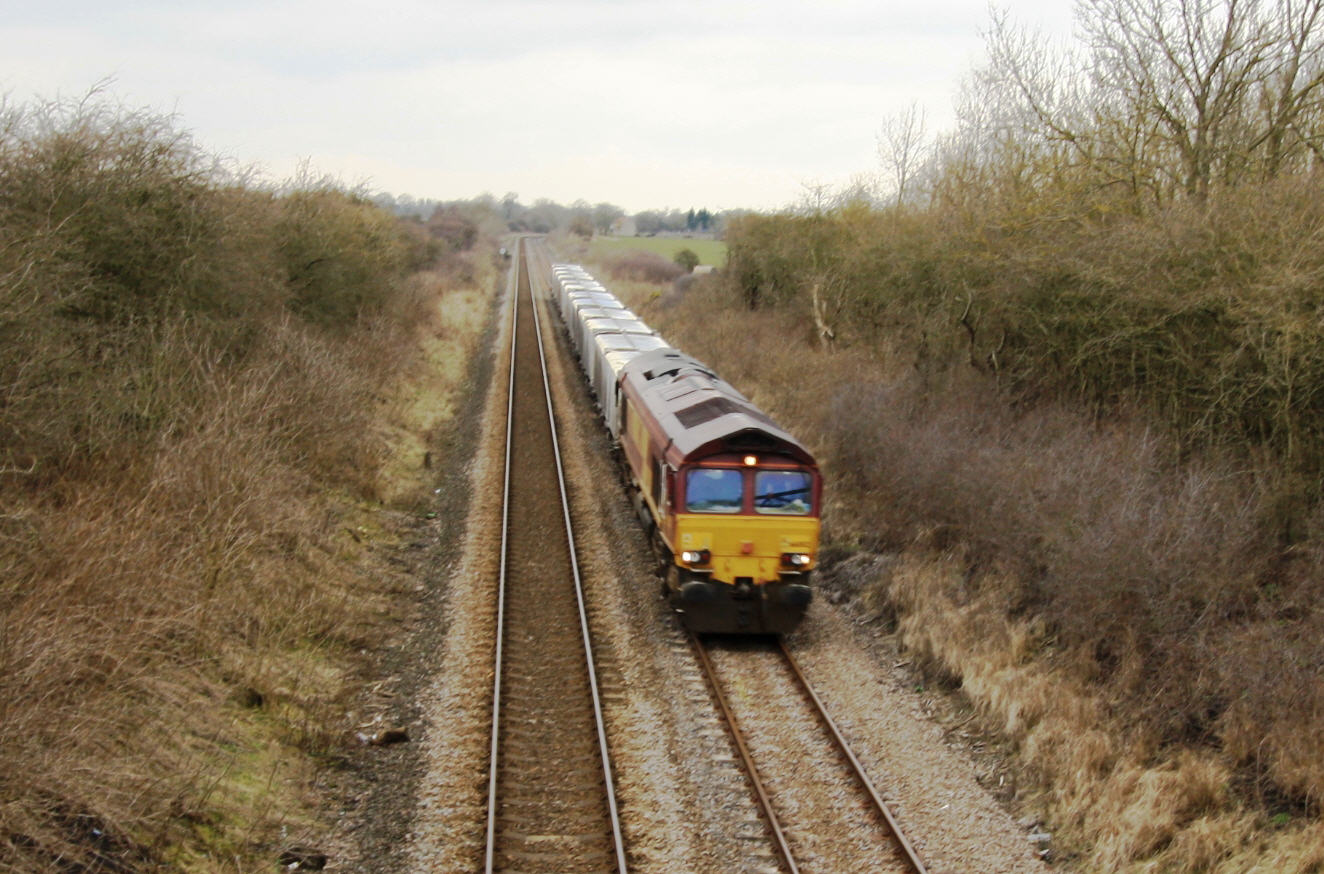 Freight train approaching Norton West Junction